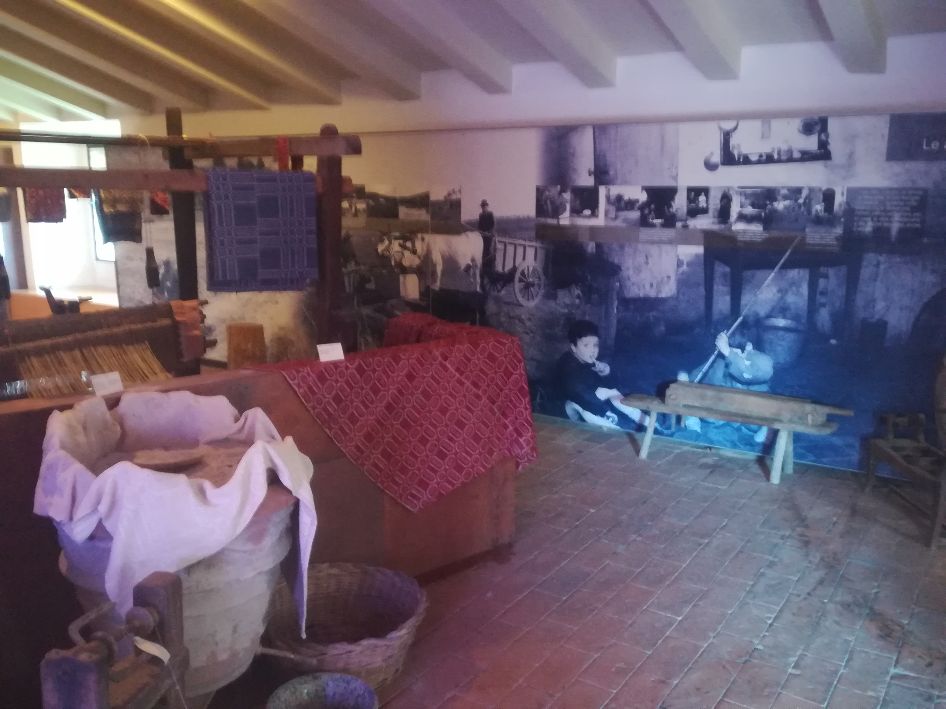 Section about work of women MuseodellaMezzadriaSenese